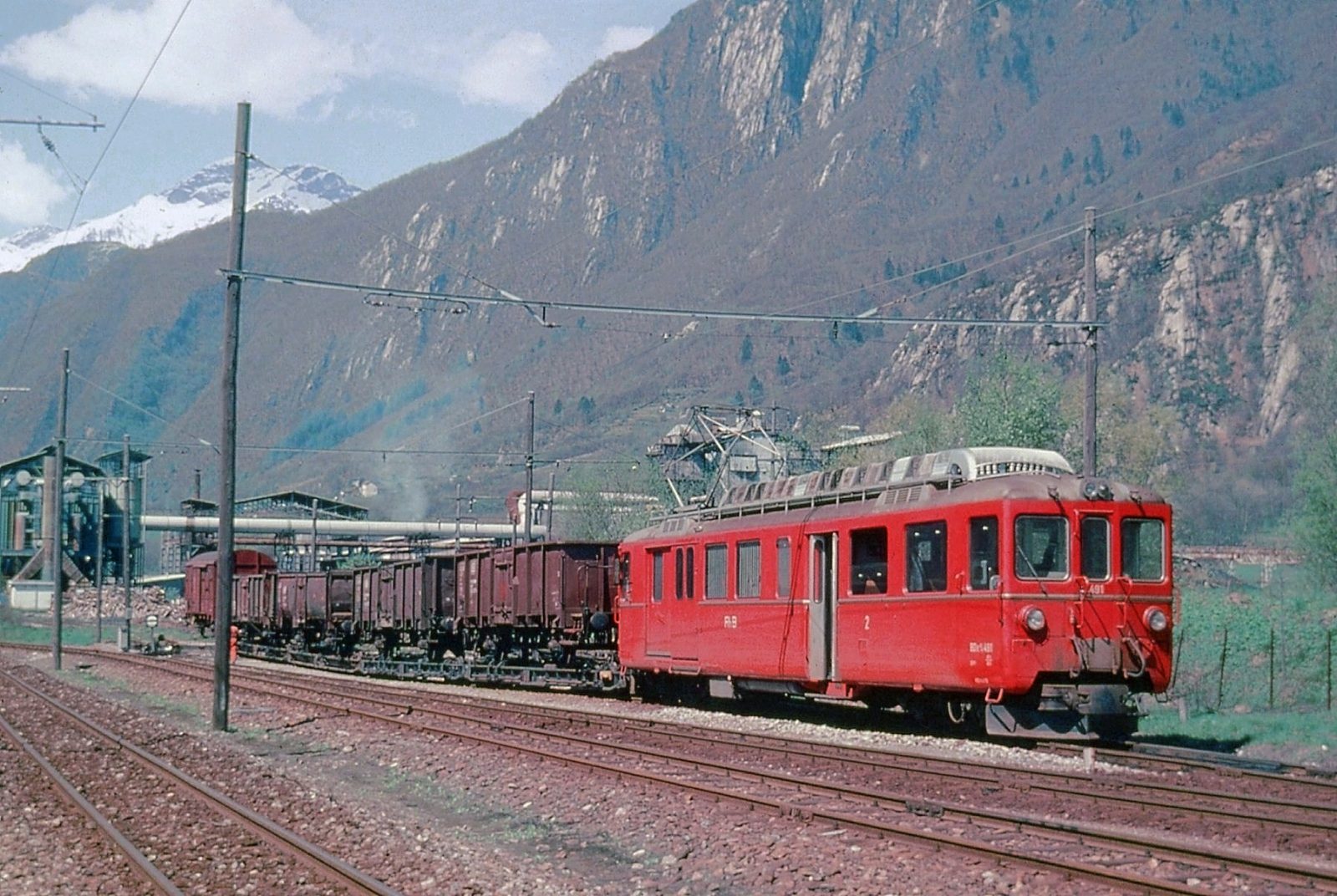 RhB railcar 491 shunting a freight train to the Valmoesa steelworks.